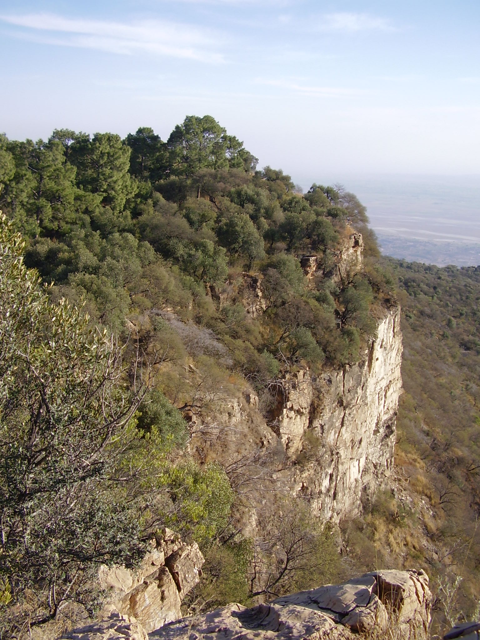 Tilla Jogian